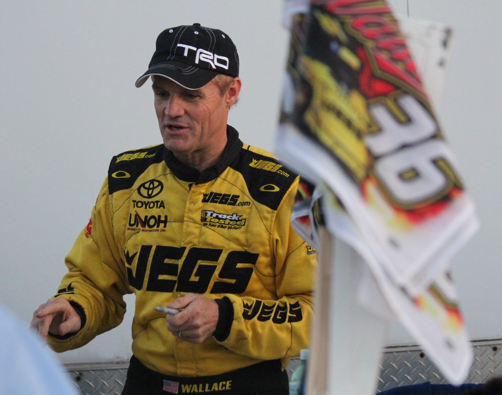 NASCAR driver Kenny Wallace signing autographs and talking with fans at 141 Speedway in Francis Creek, Wisconsin.